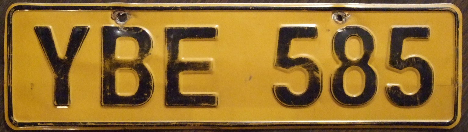 License plate from Bophuthatswana homeland, 1977.